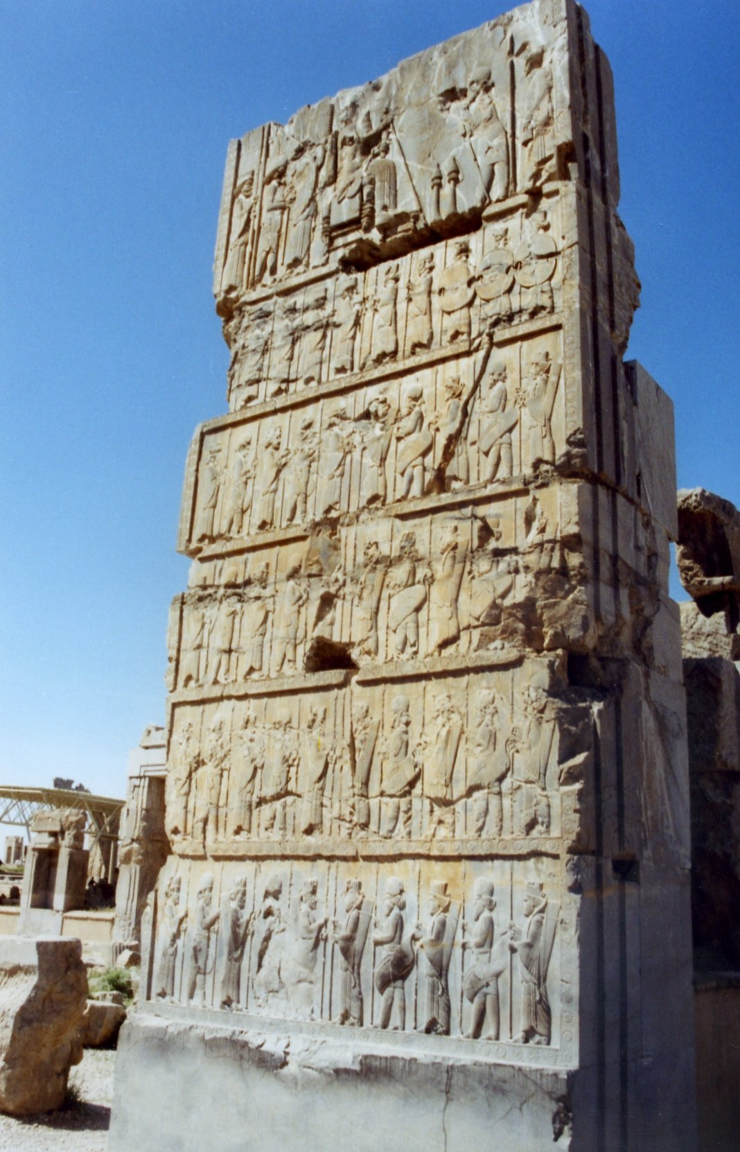 100 columns palace relief south Picture taken by myself in persepolis, Iran April 2006